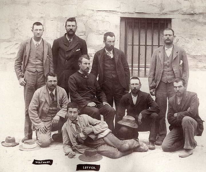 Group photo of some Kaapse Rebels